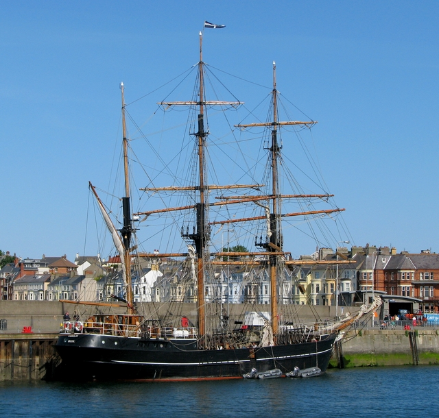 The 'Kaskelot' in Bangor [1] Tall ship 'Kaskelot' in Bangor harbour as part of the 'Sea Bangor 2008' festival. Kaskelot (Danish for 'sperm whale'), a three-masted barque, was built in 1948 by J. Ring Andersen for the Royal Greenland Trading Company and brought supplies to remote coastal settlements in East Greenland. During the 1960s, Kaskelot worked as a support vessel for fisheries in the Faroe Islands. She was purchased by 'Square Sail' in 1981 who renovated, redesigned and re-rigged her. She has since been used for filming movies and television programmes (she has appeared in Shackleton, The Last Place on Earth, Cutthroat Island, Swept from the Sea, Return to Treasure Island, The Three Musketeers, Revolution, Longitude and David Copperfield) and is also used for sail training programmes. See also 590860 taken in 2007 and 2870974 for other related images.